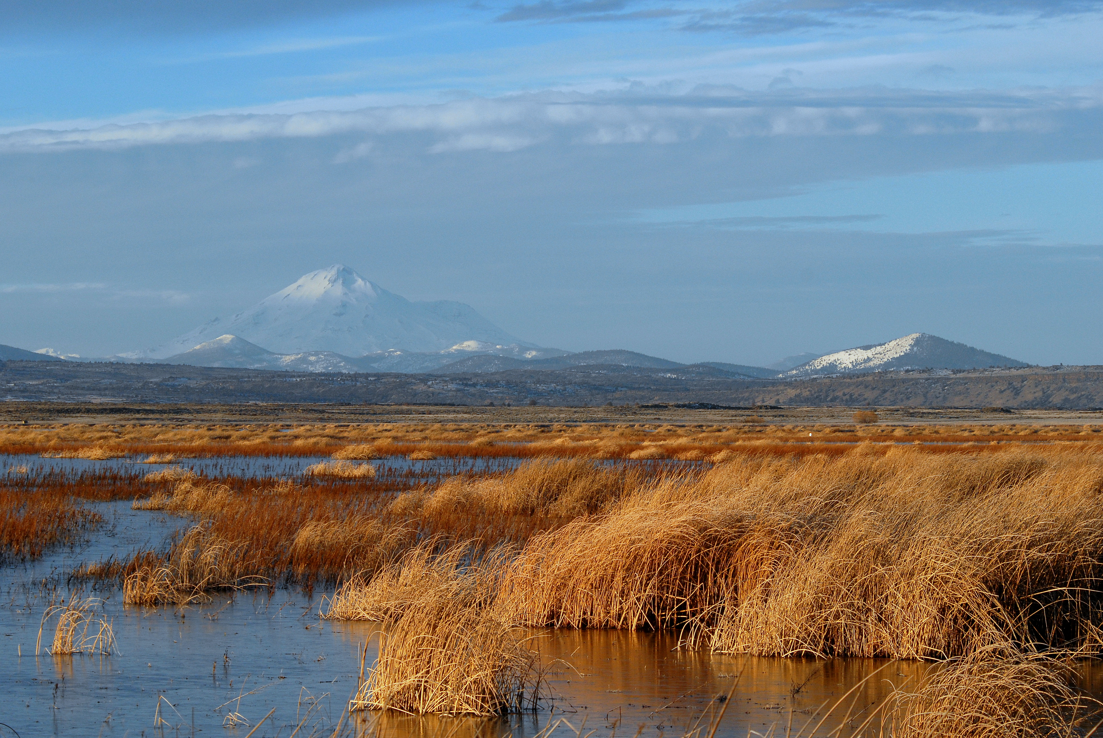 Tule Lake Lower Marsh and Mount Shasta, California.